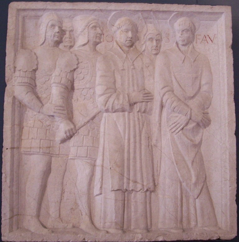 St Faustino and Giovita (Brescia)